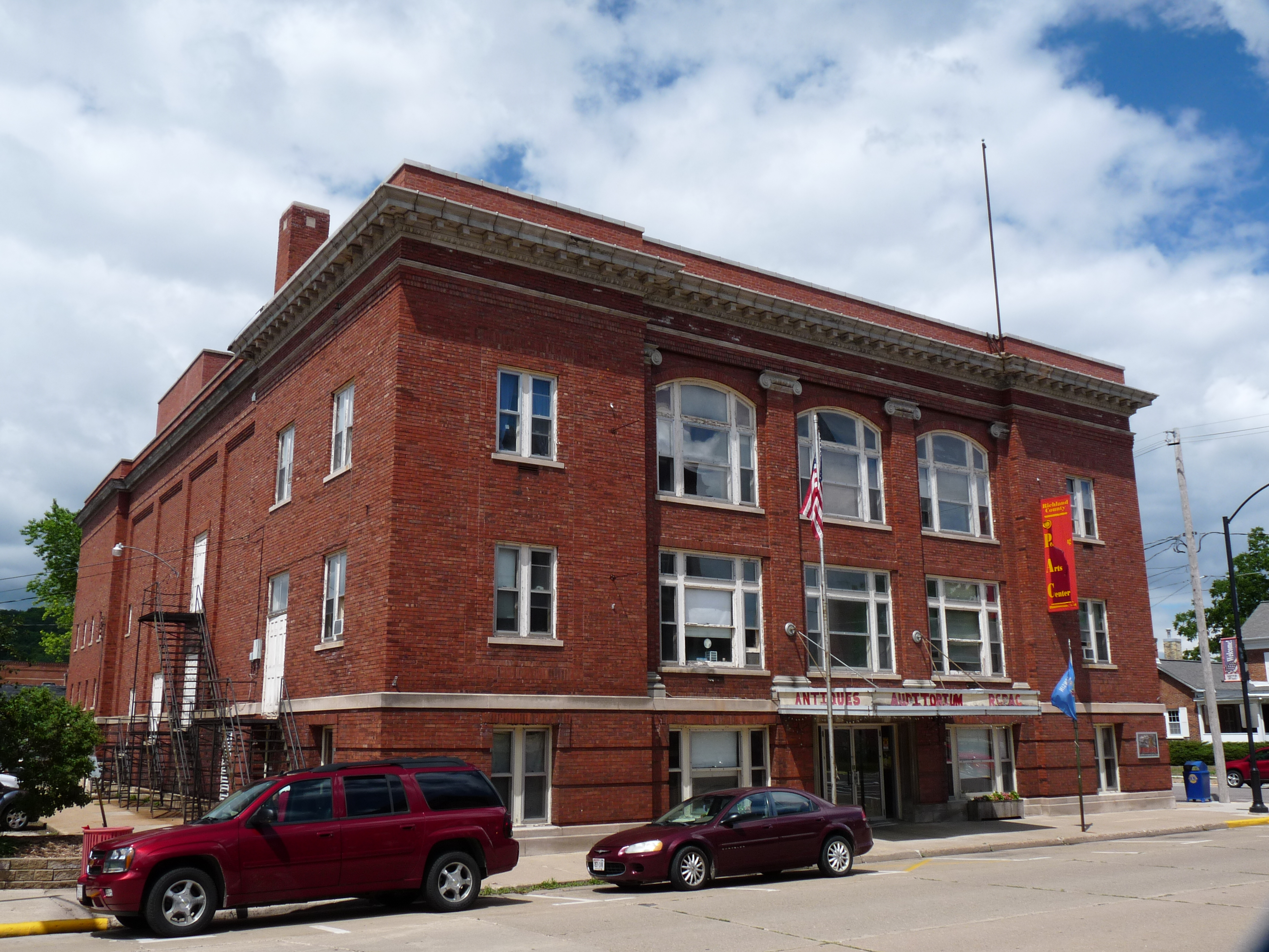 The City Auditorium in Richland Center, Wisconsin, is a multi-purpose municipal building built in 1912. Since 1980 it has been listed on the National Register of Historic Places.